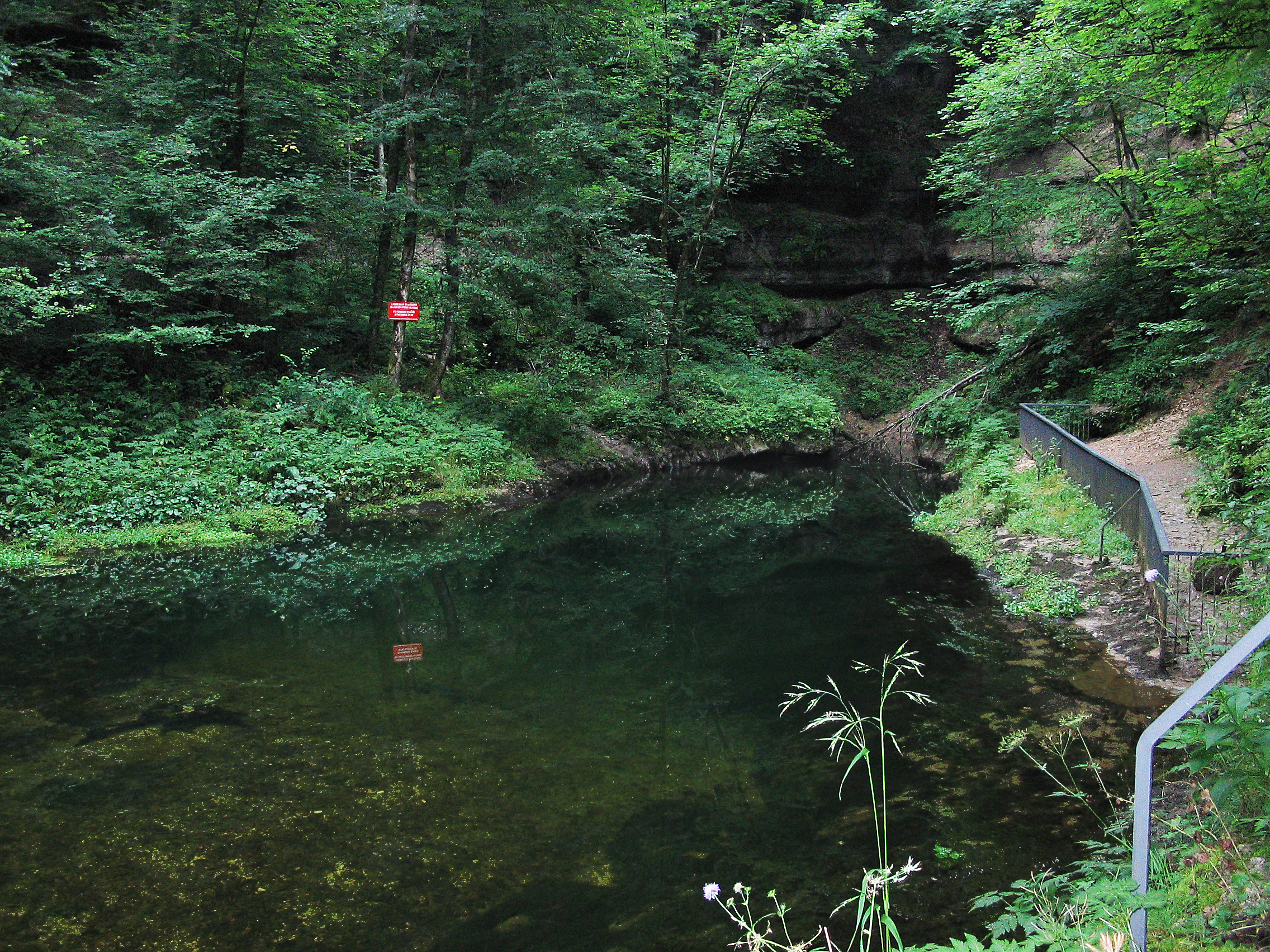 Source de la rivière Ain, Massif du Jura, la France; se jette dans le Rhône. River Ain in the Jura Mountains, eastern France, a tributary to the river Rhône. self made